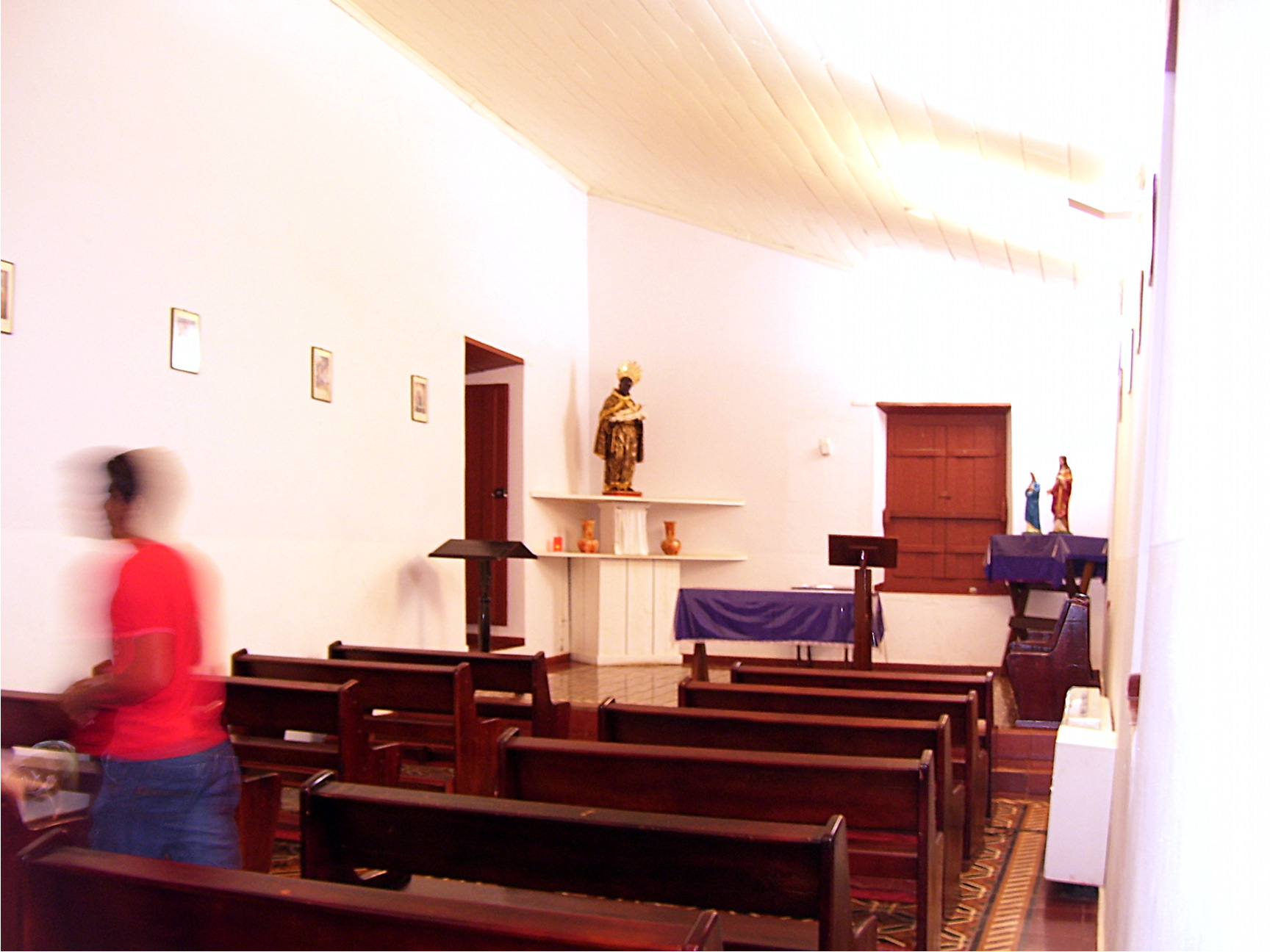 Chapel of Saint Benedict the Moor, annex of Church of Our Lady of the Rosary and Saint Benedict, Cuiabá, Mato Grosso, Brazil.